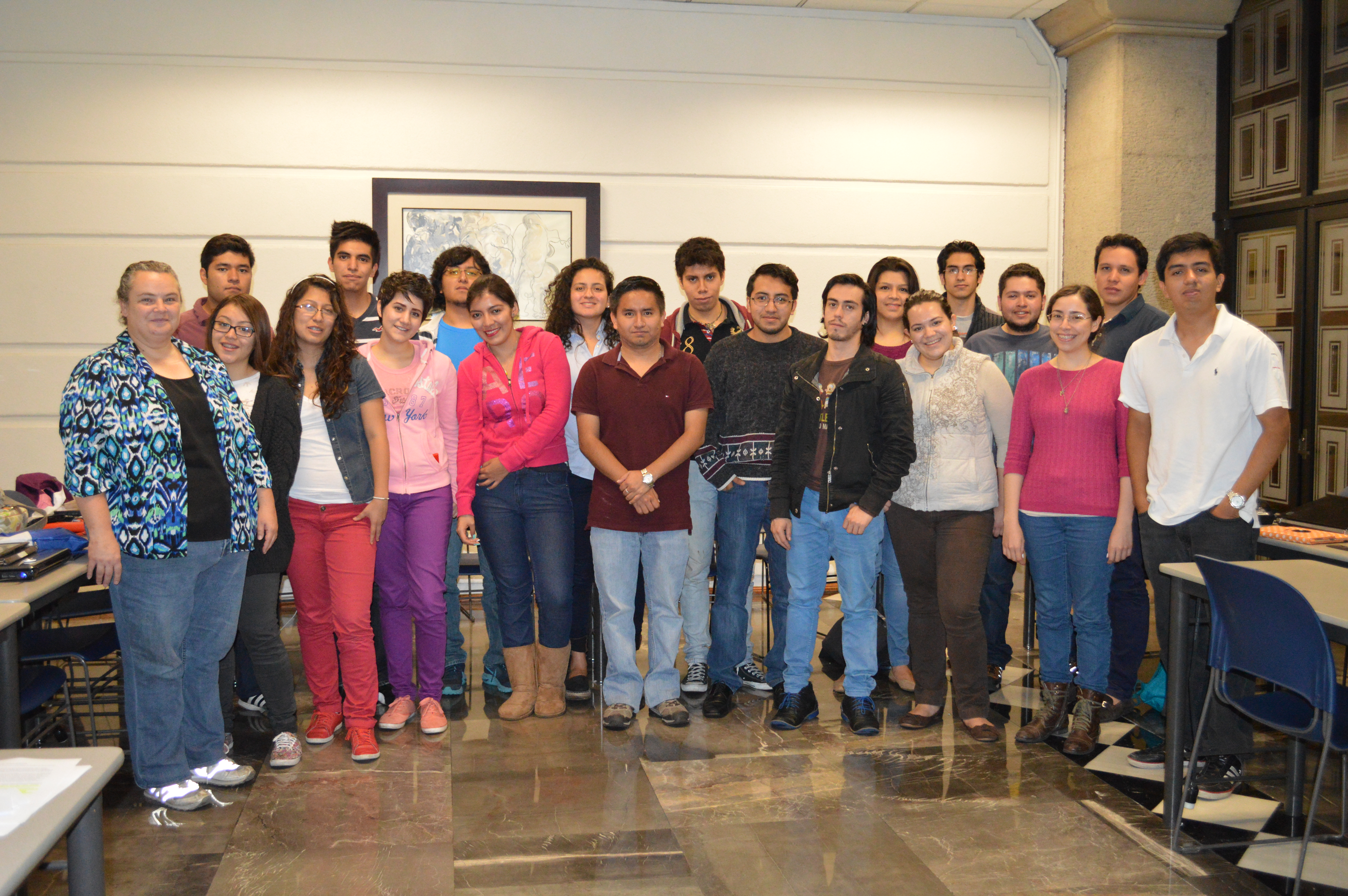 Student group photo for the social service of summer 2014